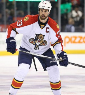 The last team that he was with before he became a Free Agent